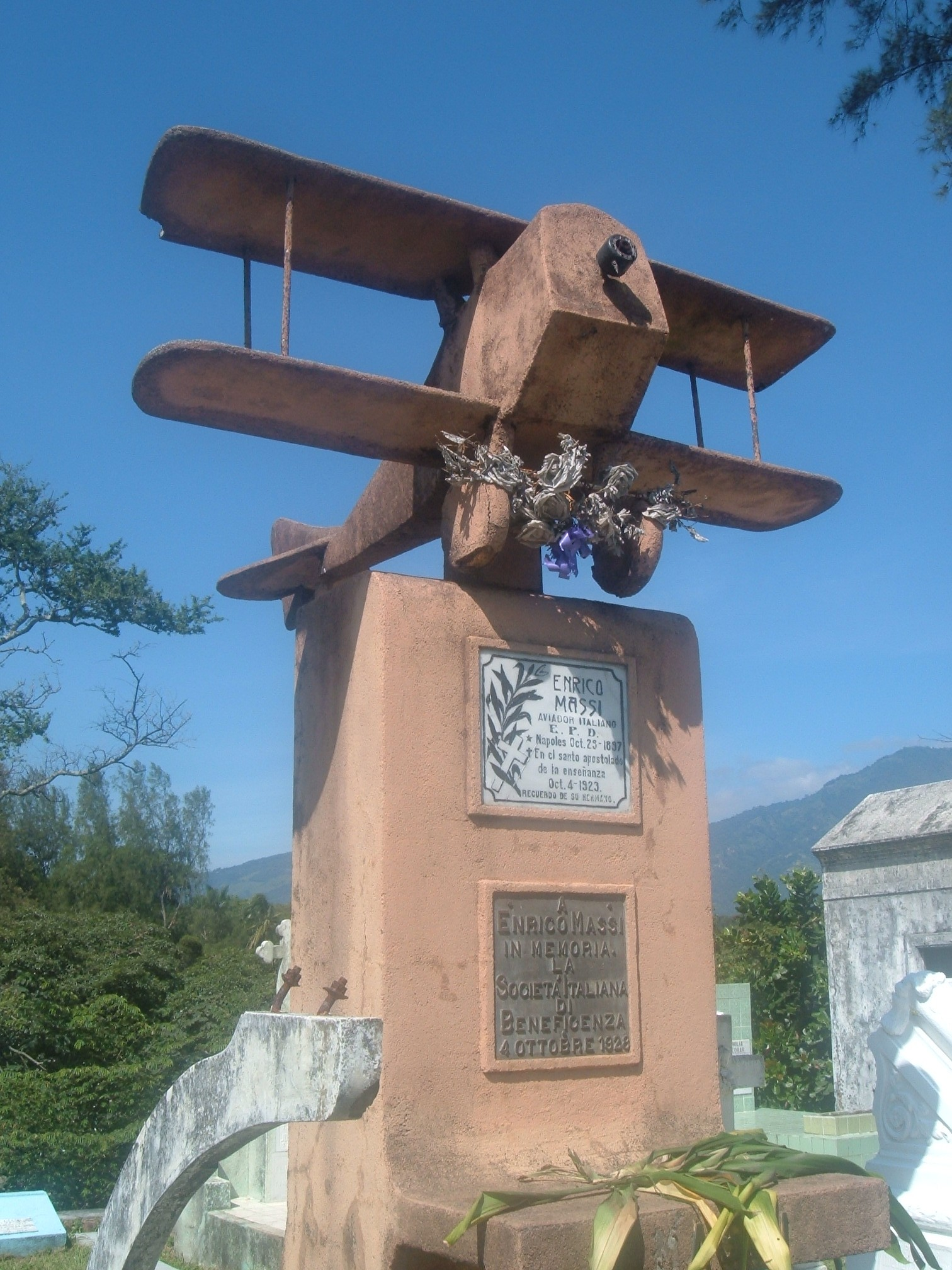 Enrico Massi´s tomb, a salvadorean airpilot of the early 1900´s.